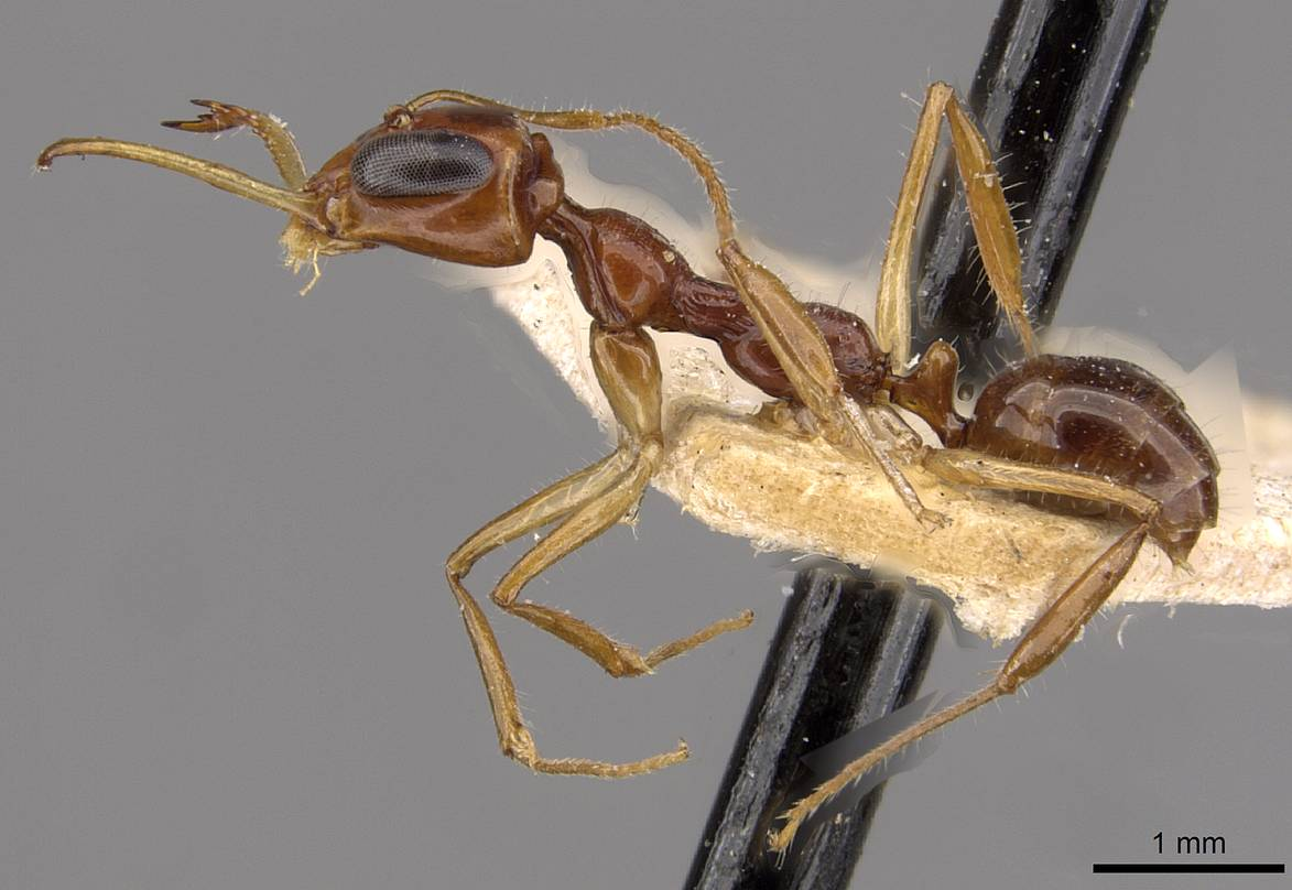 Myrmoteras binghamii specimen